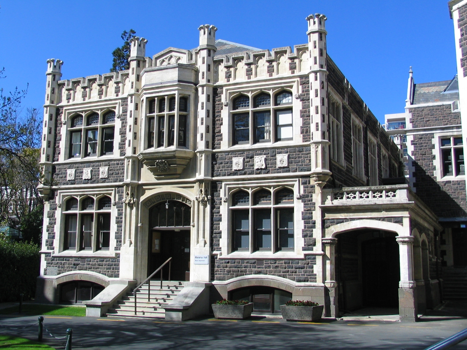 University of Otago Marama Hall, Dunedin, New Zealand